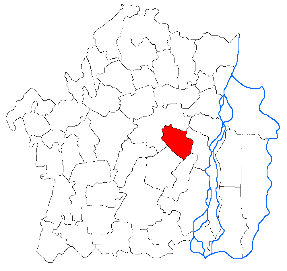 Limits of the commune of Unirea in Brăila County, Romania